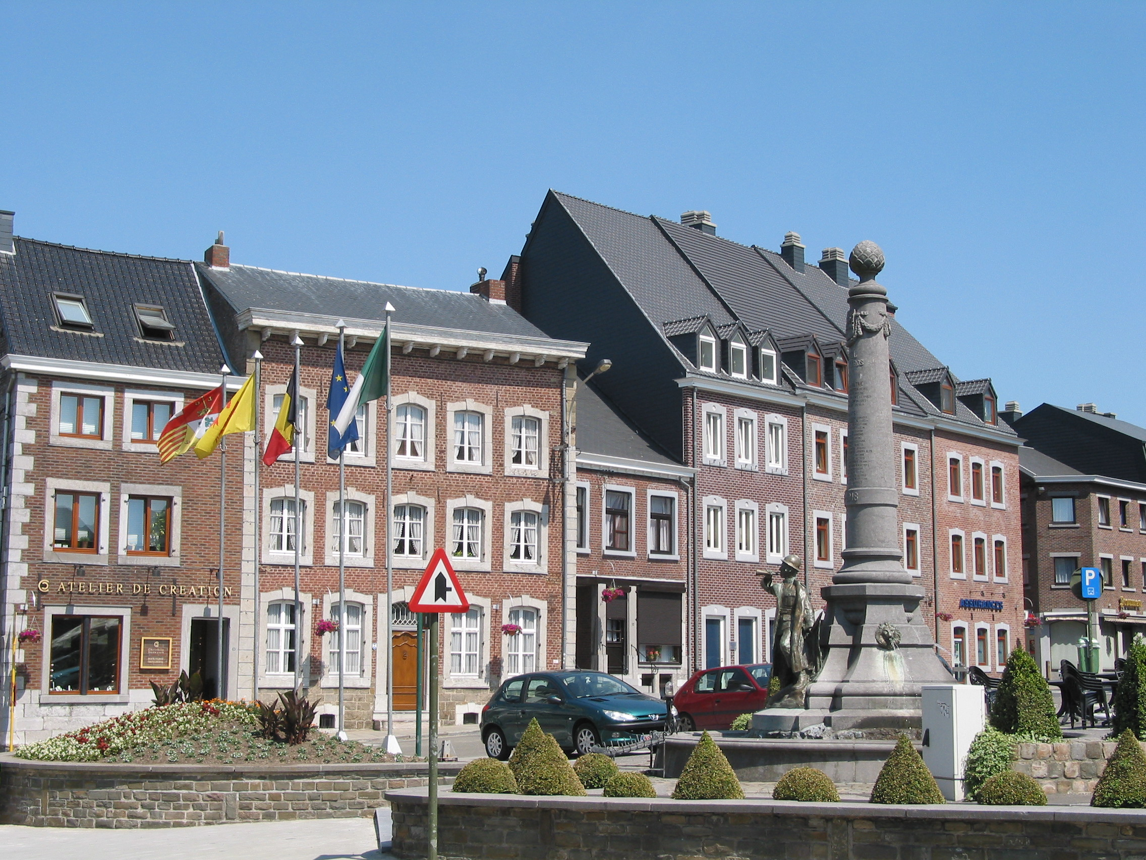 Aubel (Belgium) - Place Antoine Ernst - The monument to victims of both World Wars.